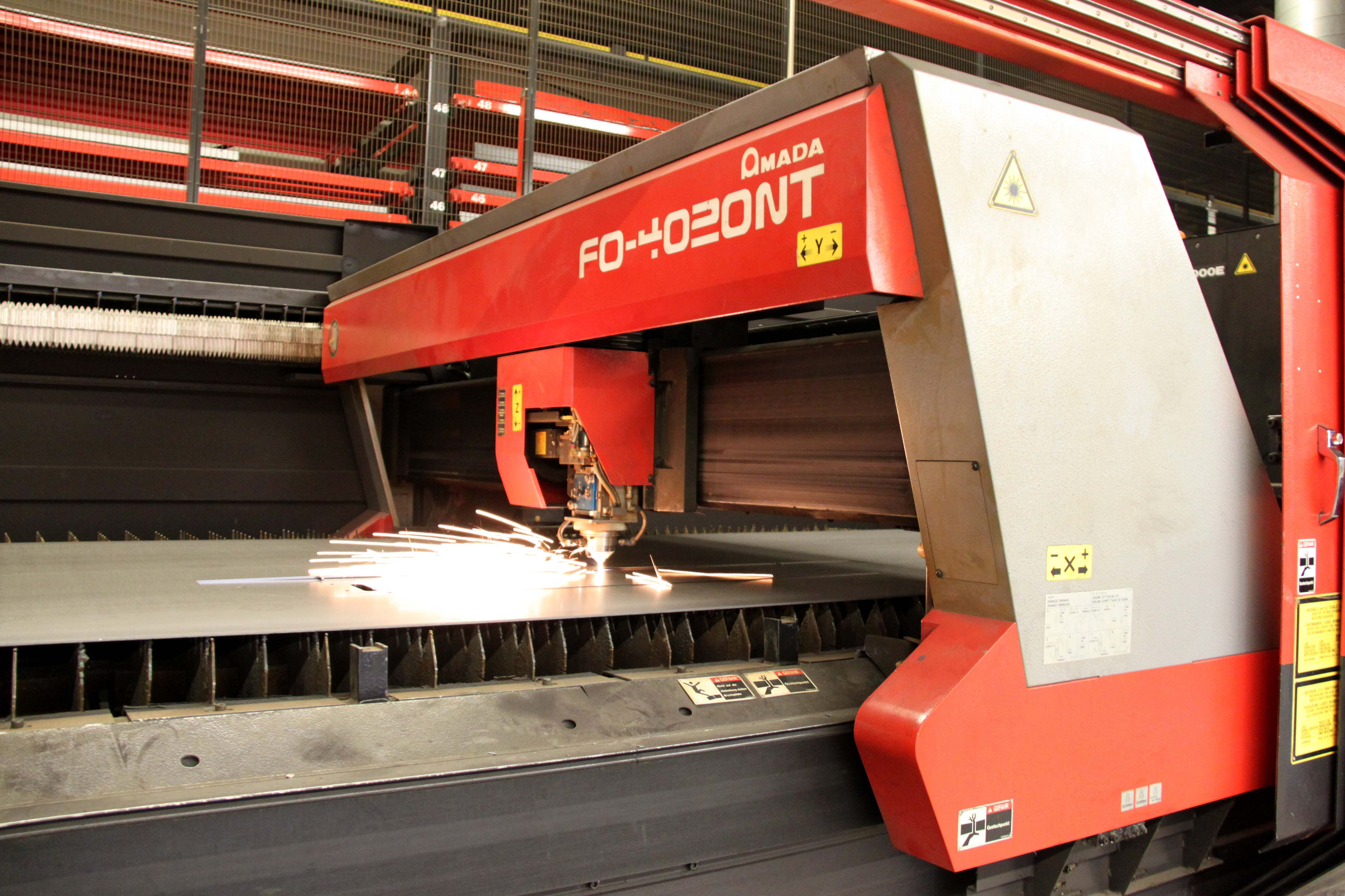 Industrial laser with flying optics, the laserhead can move freely over laser bed.